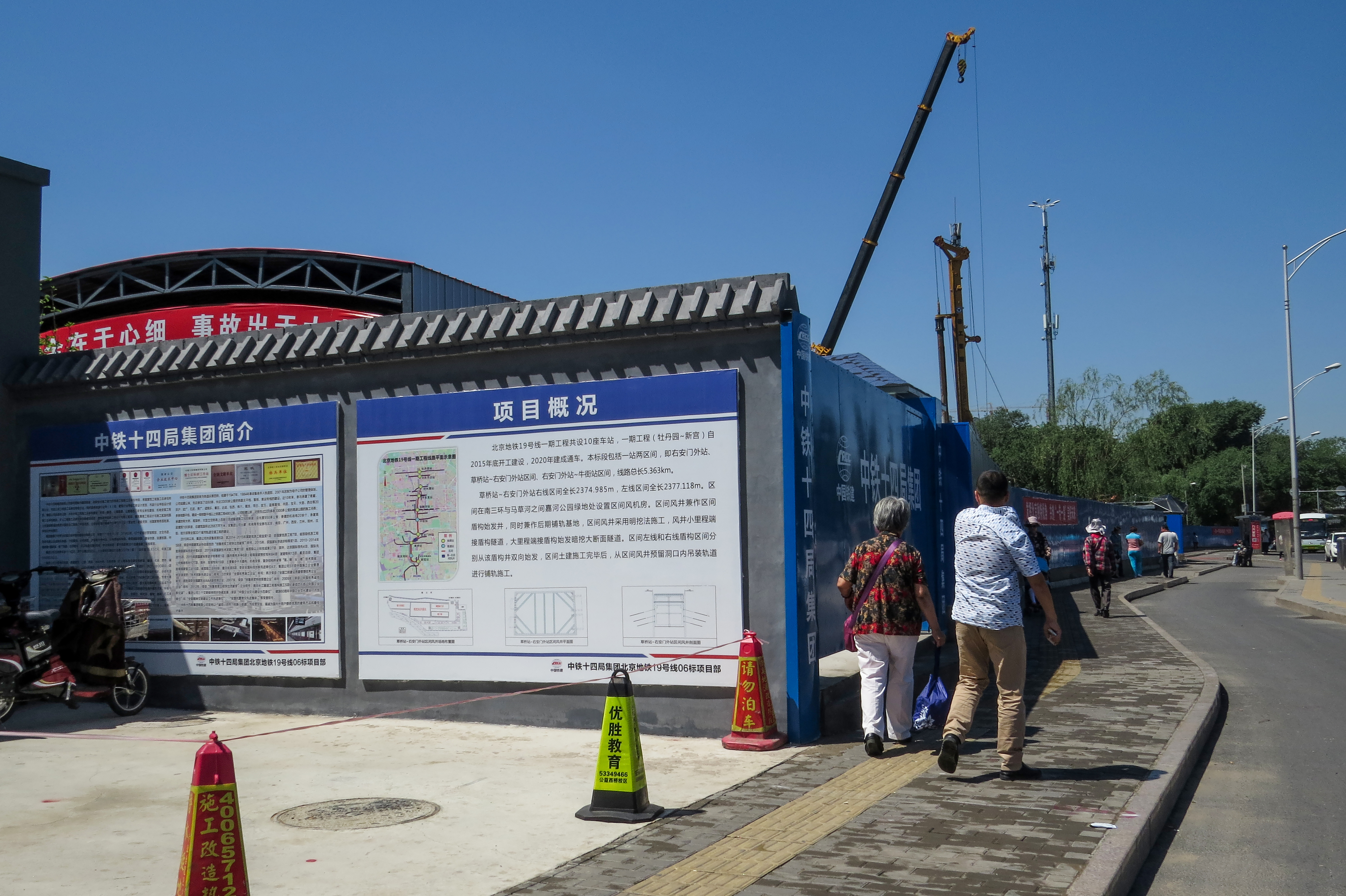 This is the construction site of Caoqiao-You'anmenwai (aka Jingfengmen) portion, L19.